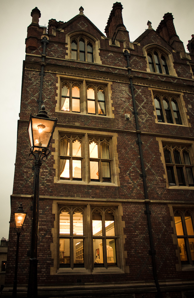 Gas lighting in the Honorable Society of Lincoln's Inn, London